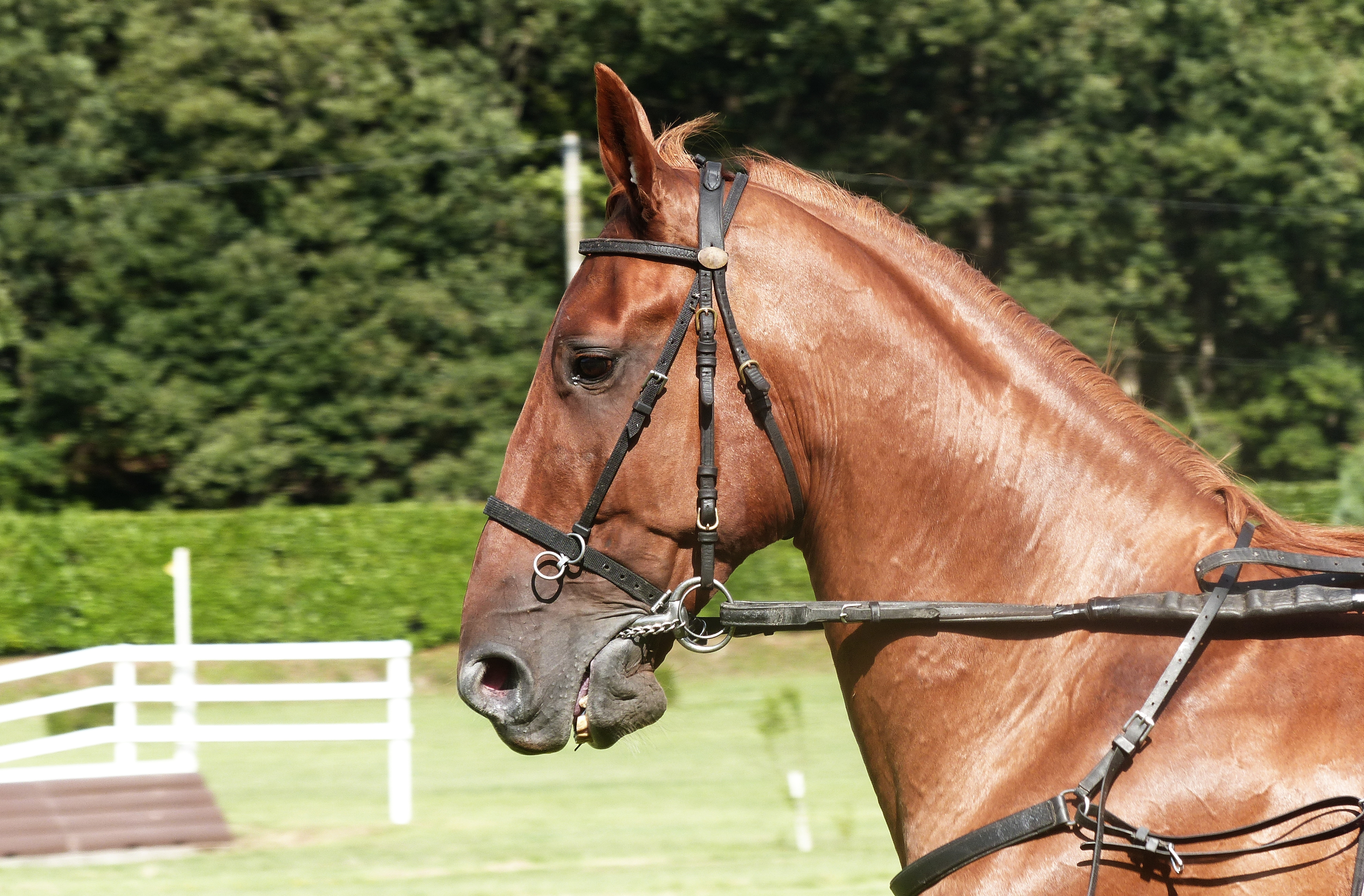 French Trotter gelding horse Born Again head